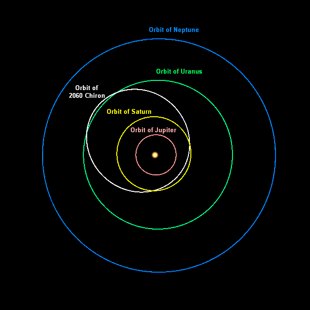 The orbit of 2060 Chiron